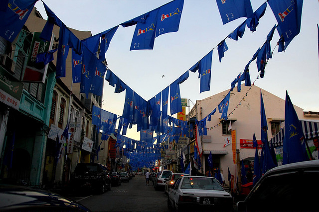 Barisan Nasional (BN) and 1Malaysia flags in the streets of George Town, Penang, prior to Malaysia's 13th General Election.